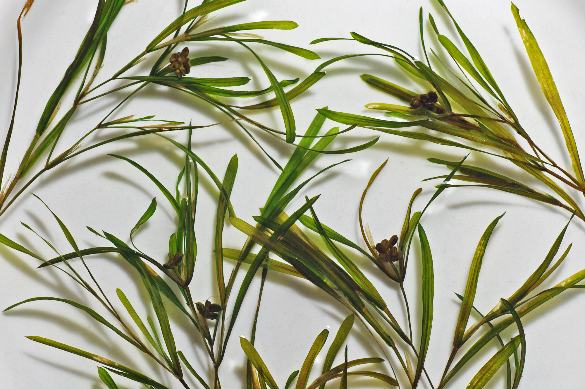 Habitus of fruiting Sharp-leaved Pondweed (Potamogeton acutifolius).